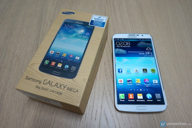 Samsung's biggest phablet yet – the Samsung GALAXY Mega 6.3